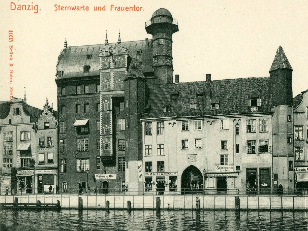 This postcard is from publisher Brück & Sohn in Meißen ( This postcard has a unique number 04035 and is available in a higher resolution at the publisher. This images was uploaded in a cooperation project between Wikipedians and the publisher.